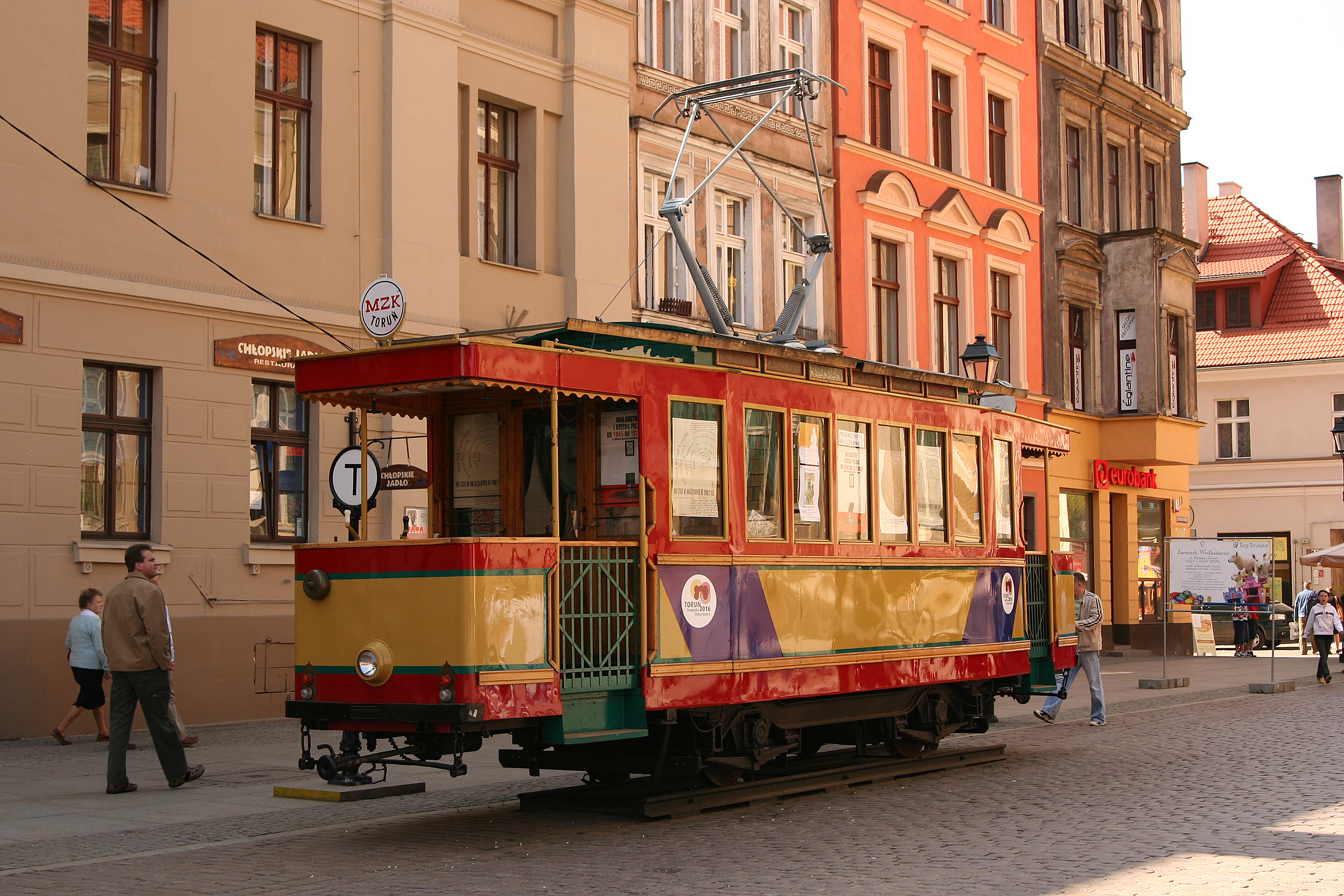 Historical tram, Old Town Market, Torun